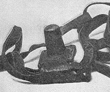 Cylindrical arm-tefillin found in the Cairo genizah.